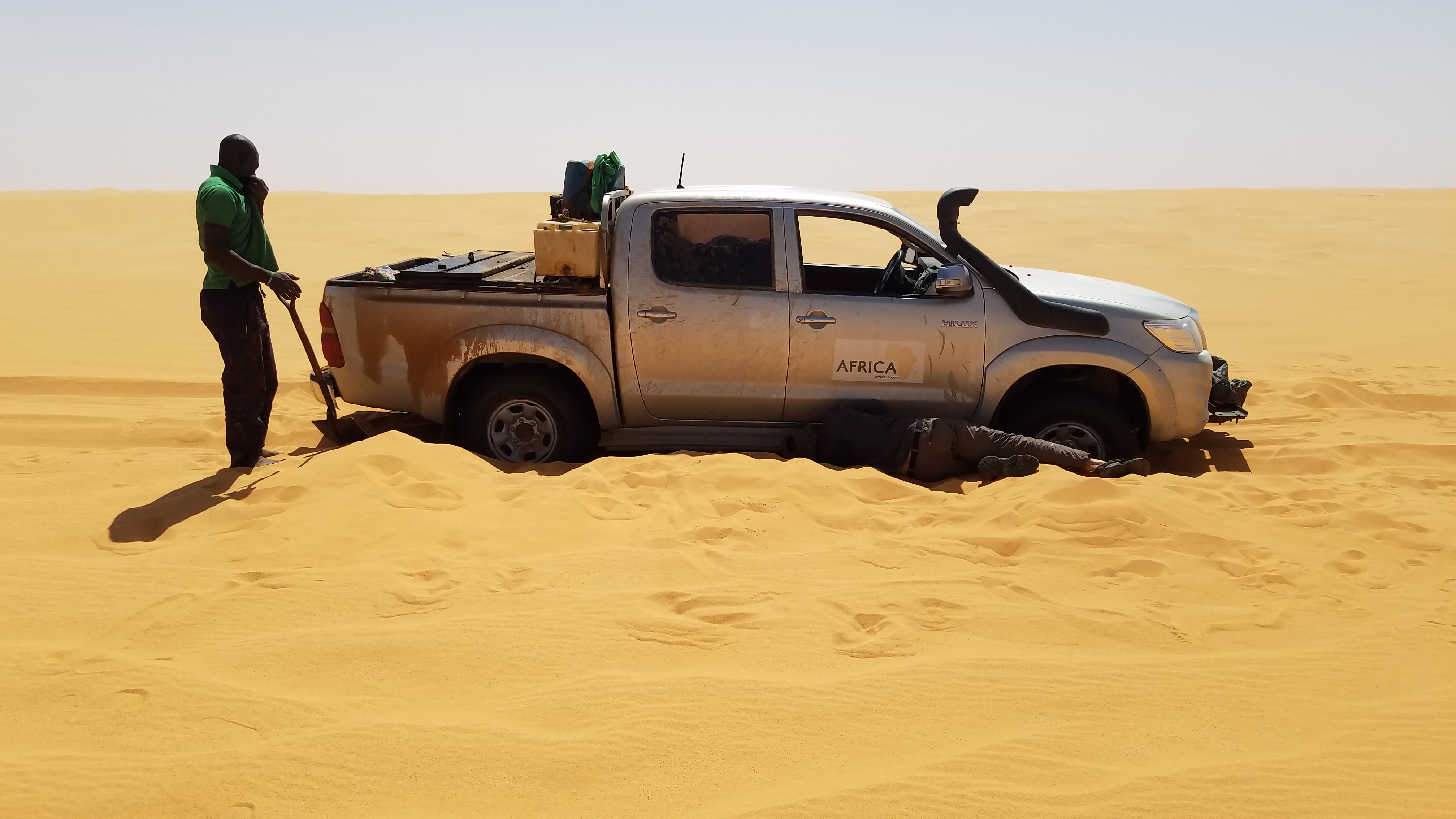 This is an image of "African people at work" from Chad